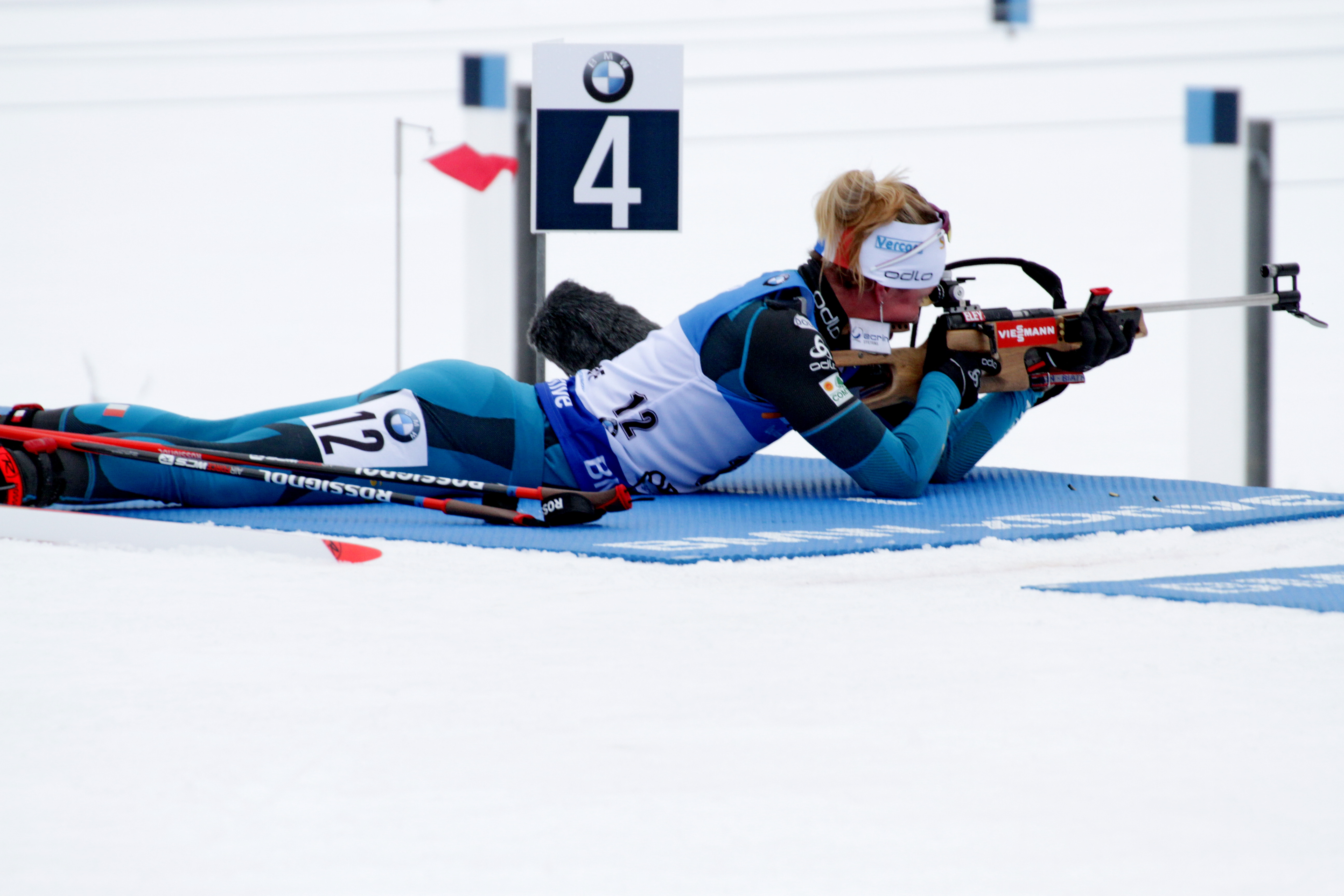 2018 Oberhof Biathlon World Cup - Sprint Women